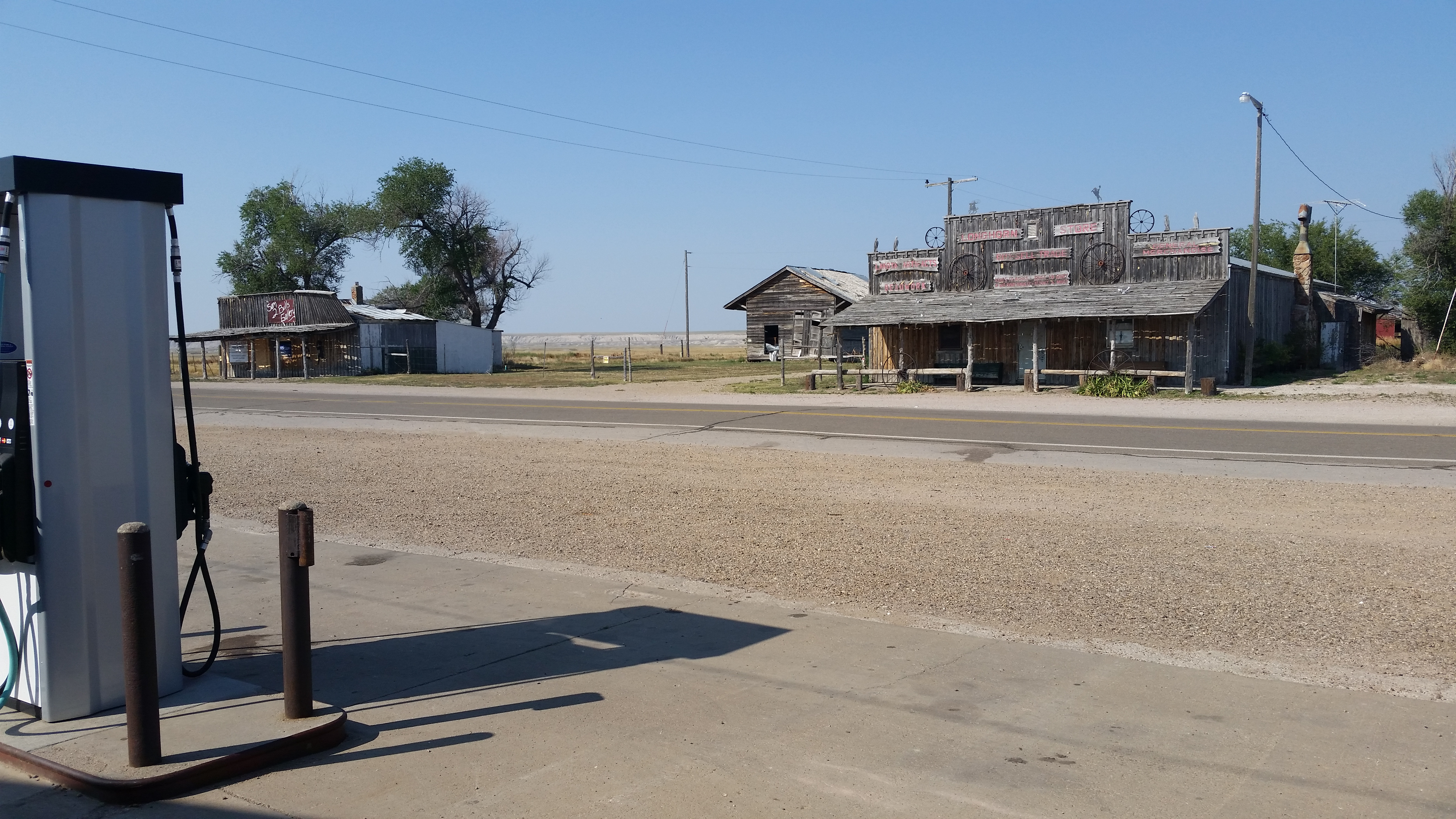 Scenic SD Main Street